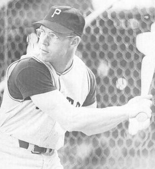 Professional baseball player Bill Virdon